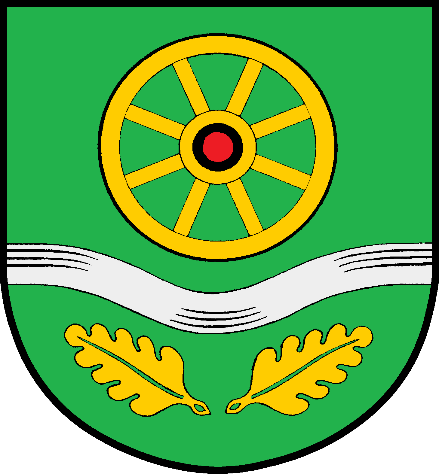 Coat of arms of the municipality Kollow in Schleswig-Holstein, Germany.